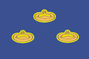 Flag of Murom, Vladimir Region, Russia